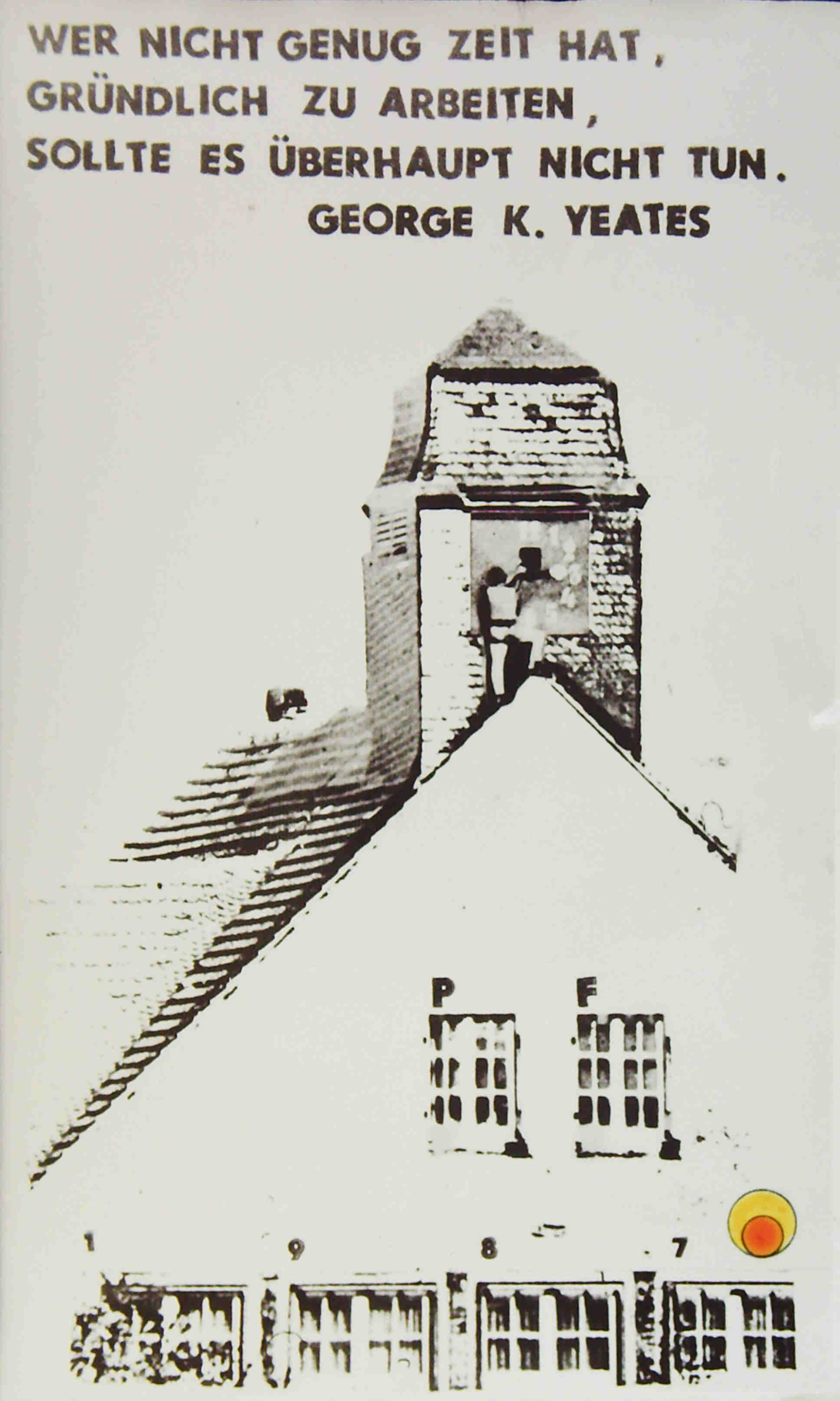 selfmade New Year card pf1987 pour féliciter - to congratulate, to wish you happiness